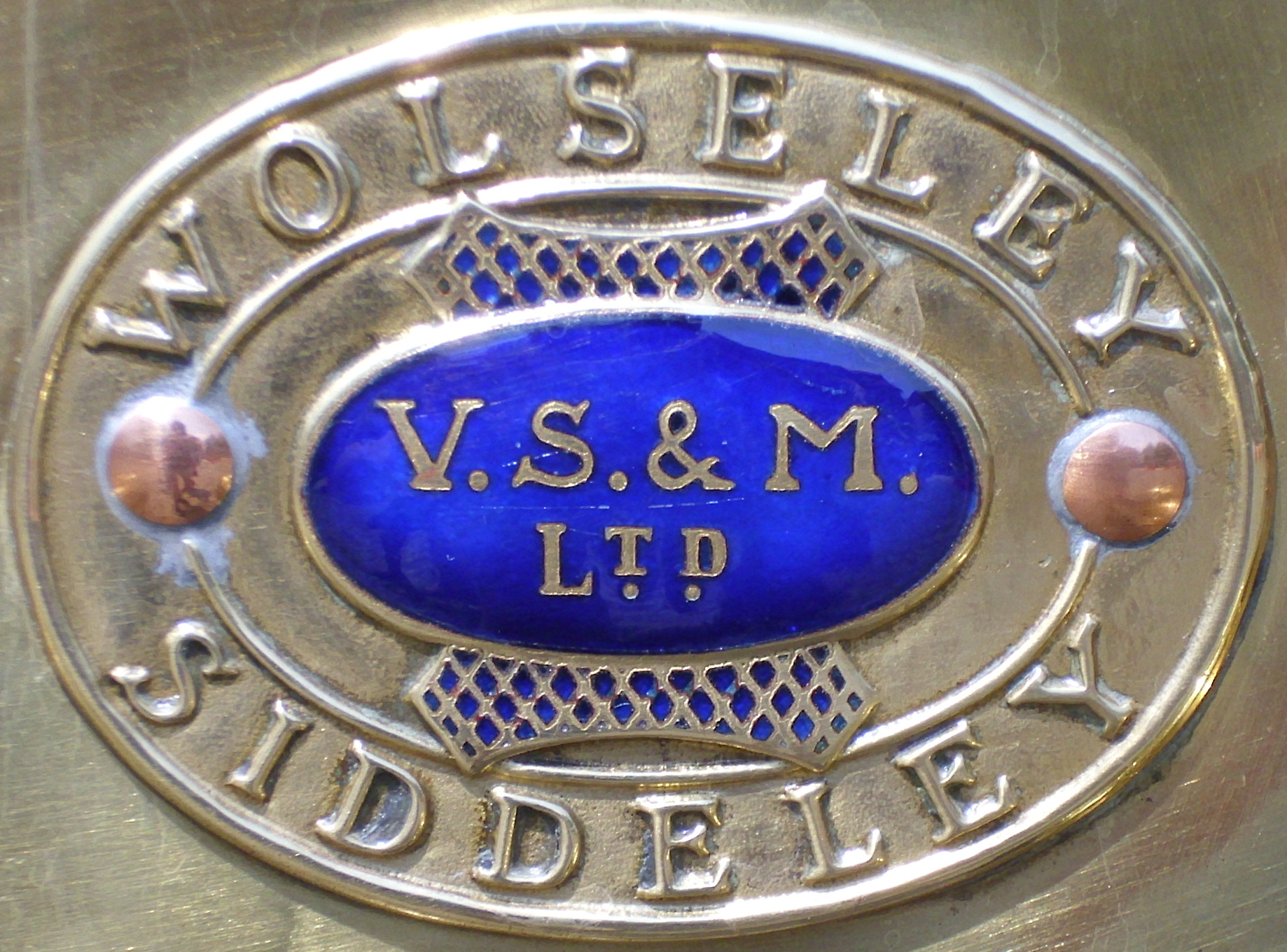 Emblem from the radiator of a Wolseley-Siddeley car, the manufacturing company owned by Vickers, Sons & Maxim Limited